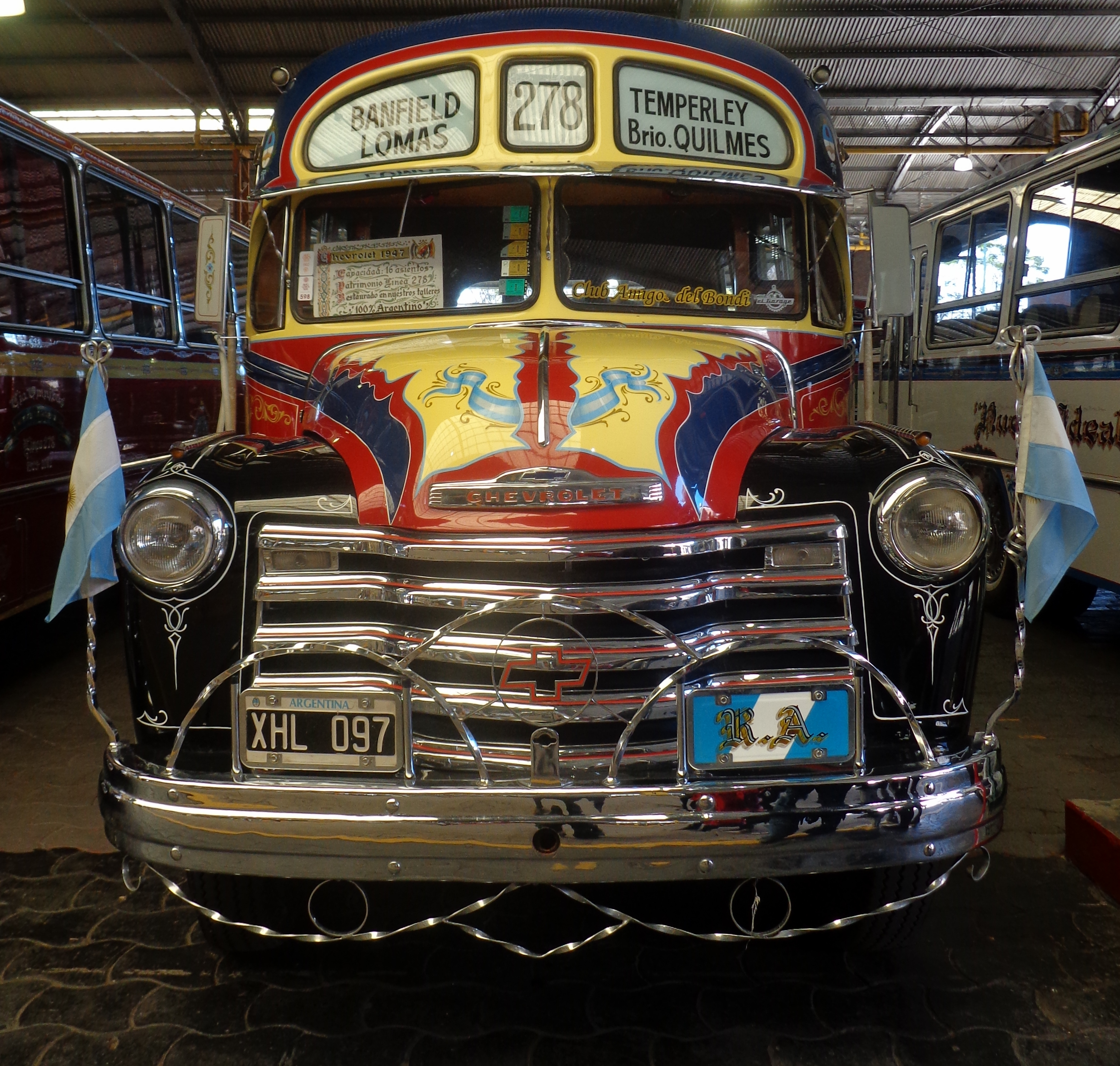 Chevrolet historical bus (reg. XHL 097) in Buenos Aires, Argentina. Built 1947. Colectivo, line 278, Cia. Omnibus "25 de Mayo" S.A. {CO.VE.MA. S.A.} operator.